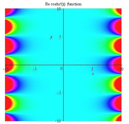 Coshc'(x) Re density plot